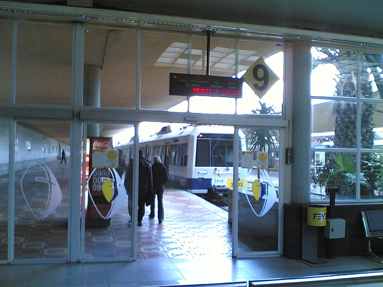 FEVE Railway Station in Santander (Cantabria, Spain)